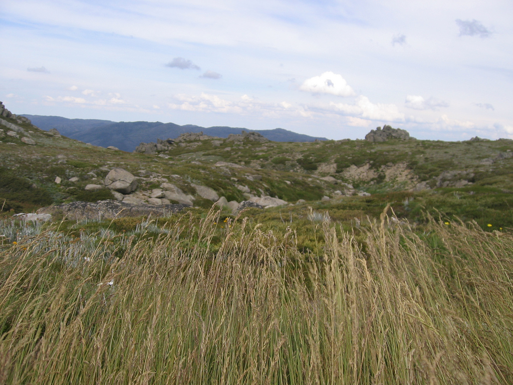 Typical alpine vegetation in Kosciuszko National Park. At altitudes above 1800 metres, it is too cold for trees to grow and the short, cool summers allow even grass to only grow to fairly low heights. Despite it being a hot summer's day (32 C / 90 F) in Canberra and other nearby towns, up here it was decidedly chilly - around 15 C / 60 F.